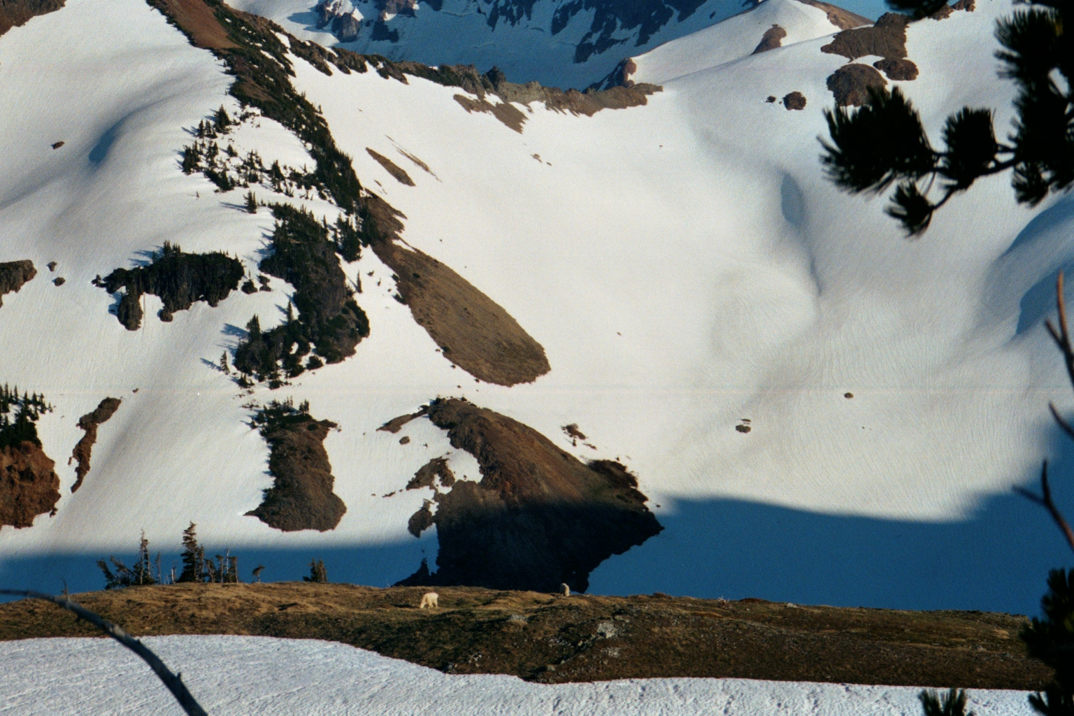 Oreamnos americanus Description: Mountain Goats, Oreamnos americanus, ridge northeast of Old Snowy Mountain behind. Viewpoint location: Ridge 0.7 km northeast of pt. 7210' near tarn, Goat Rocks Wilderness Lat/Long: 46.5355°N, 121.4425°W (WGS84/NAD83) USGS Old Snowy Mountain Quad [1] Viewpoint elevation: 6320 feet View direction: Southeast Date and time: 2002.06.12 19:30 PDT Camera: Olympus 35 mm Photographer: Walter Siegmund ©2005 Walter Siegmund